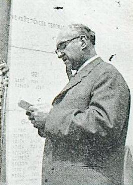 Branko Babič-Vlado (1912-), Slovene partisan, politician and writer